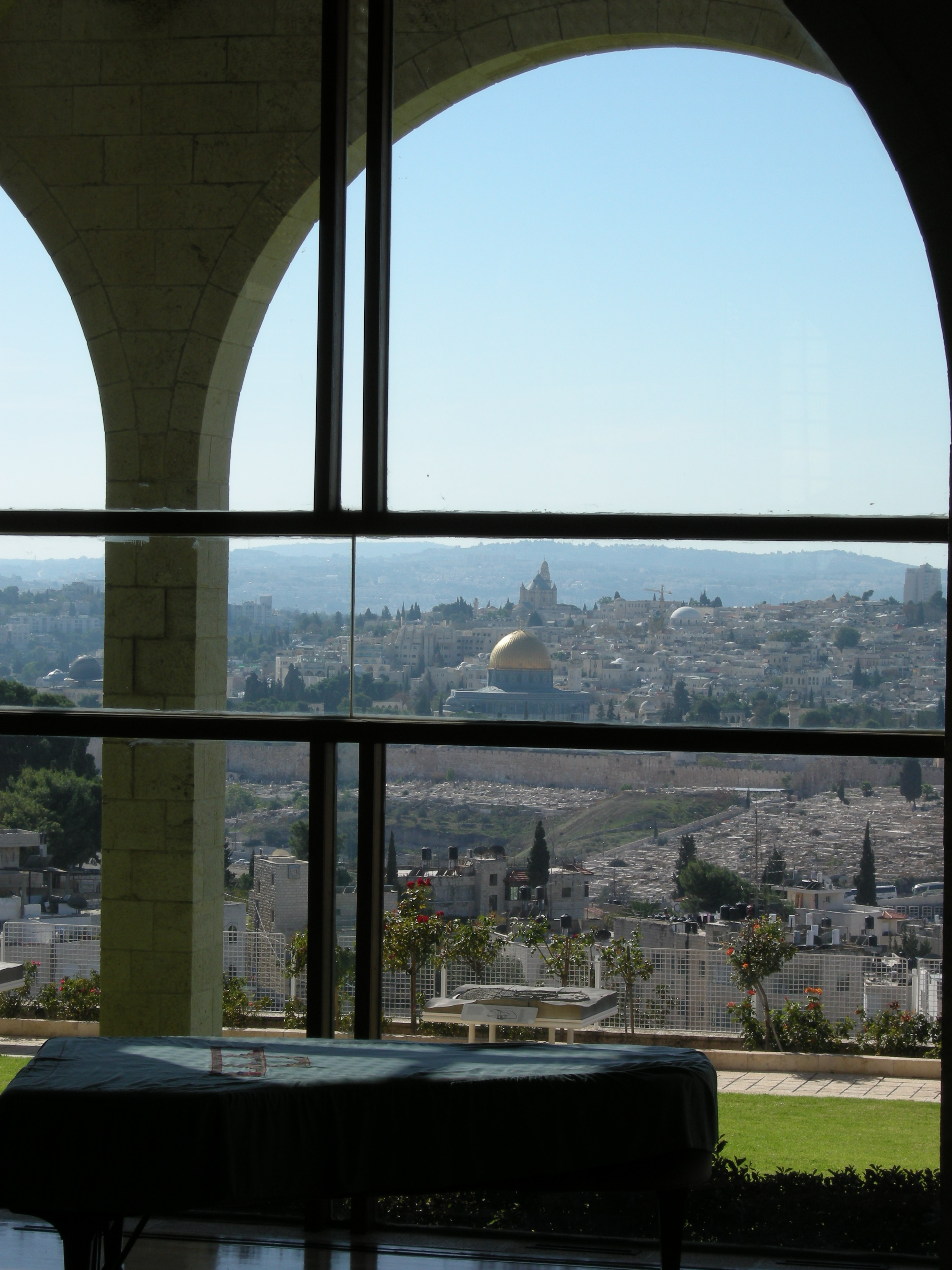 Brigham Young University Jerusalem Center